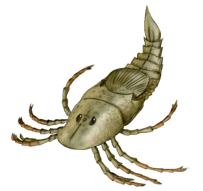 Megarachne servinei, an eurypterid from the Upper Carboniferous of Argentina, after description by Selden et al., 2005, pencil drawing, digital coloring